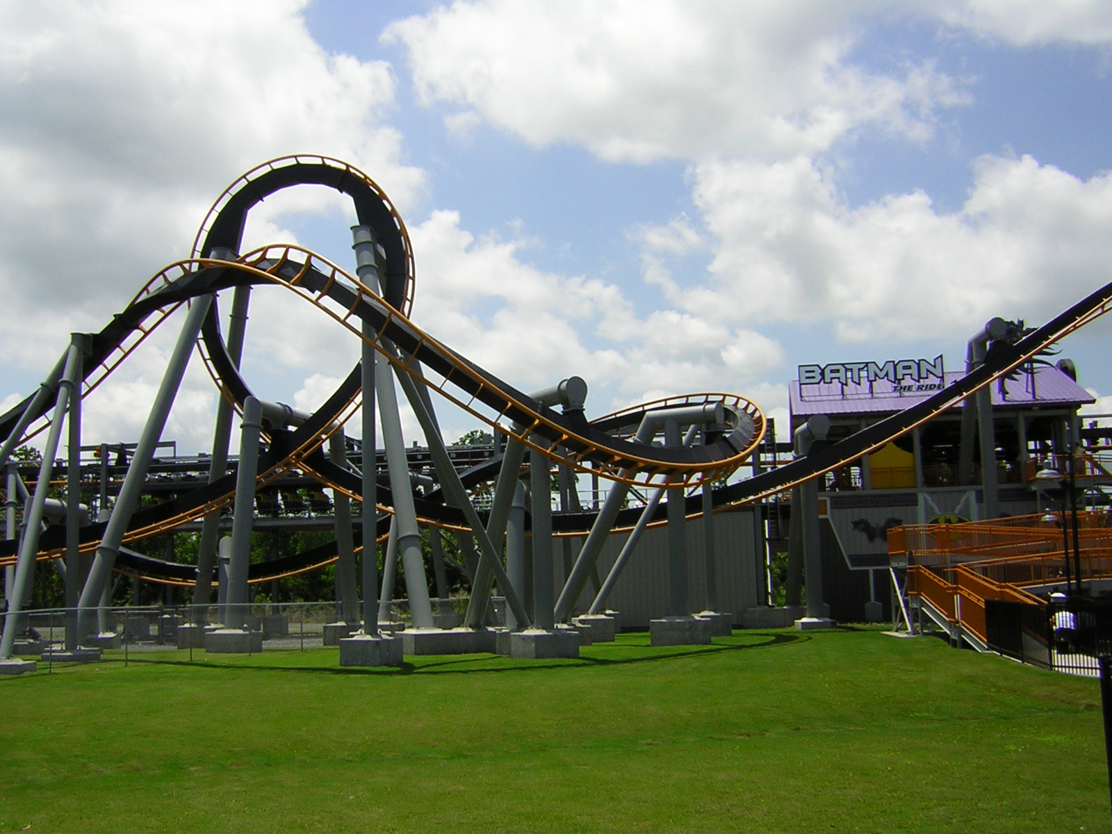 Just the usual B:TR clone. We actually witnessed the first employee safety violation of the trip on this ride! Our harnesses were opened to assist a guest in the row behind us and they were never rechecked by an employee.Batman: The Ride